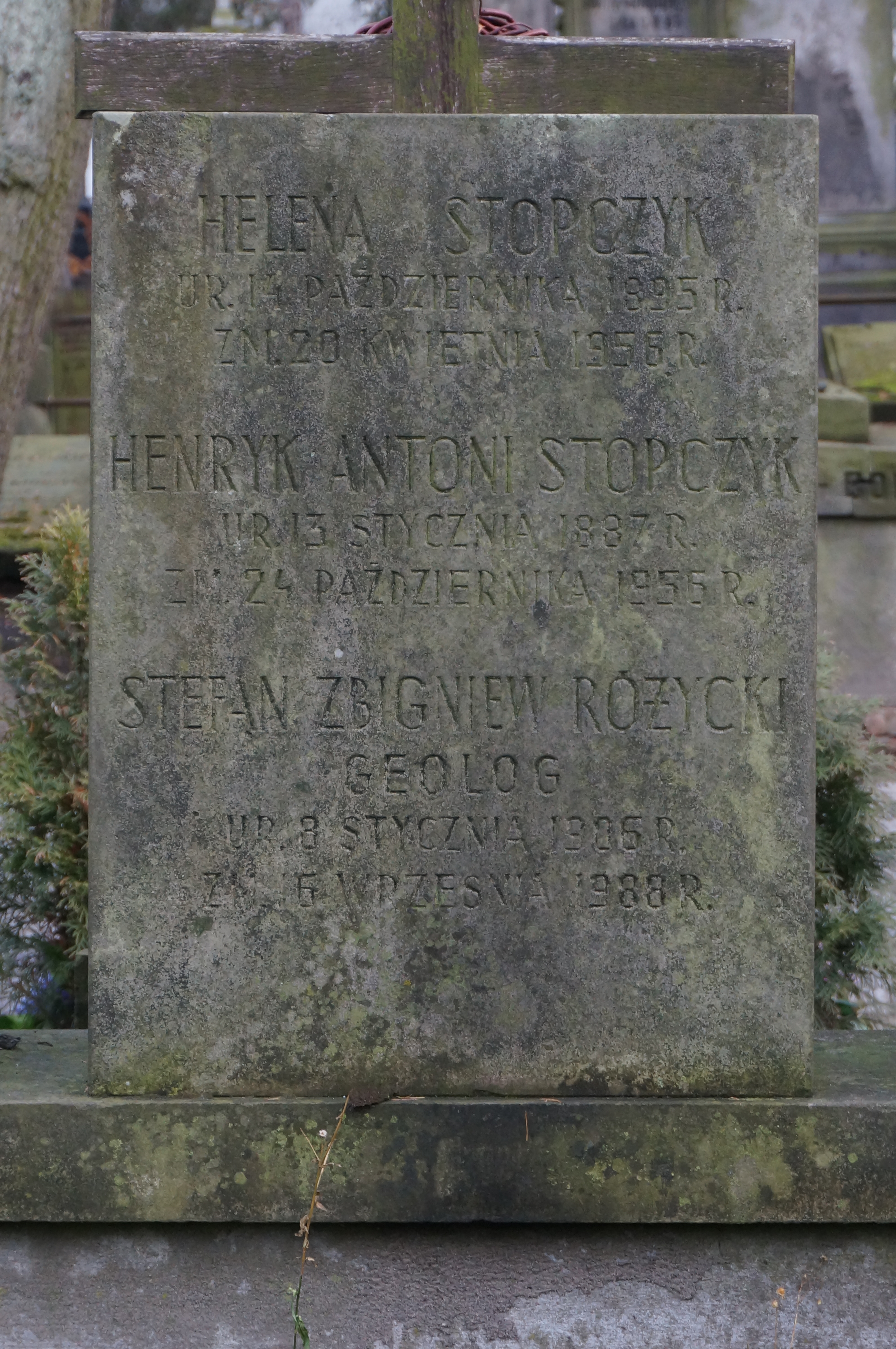 Gravestone of Stefan Zbigniew Różycki